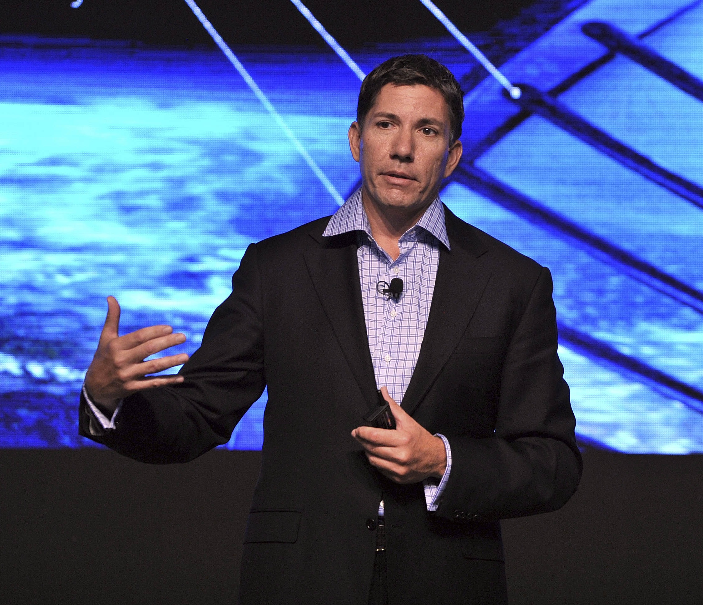 Gary Kovacs, Chief Executive Officer, Mozilla, USA, at the World Economic Forum Annual Meeting of the New Champions in Tianjin, China, 2012.